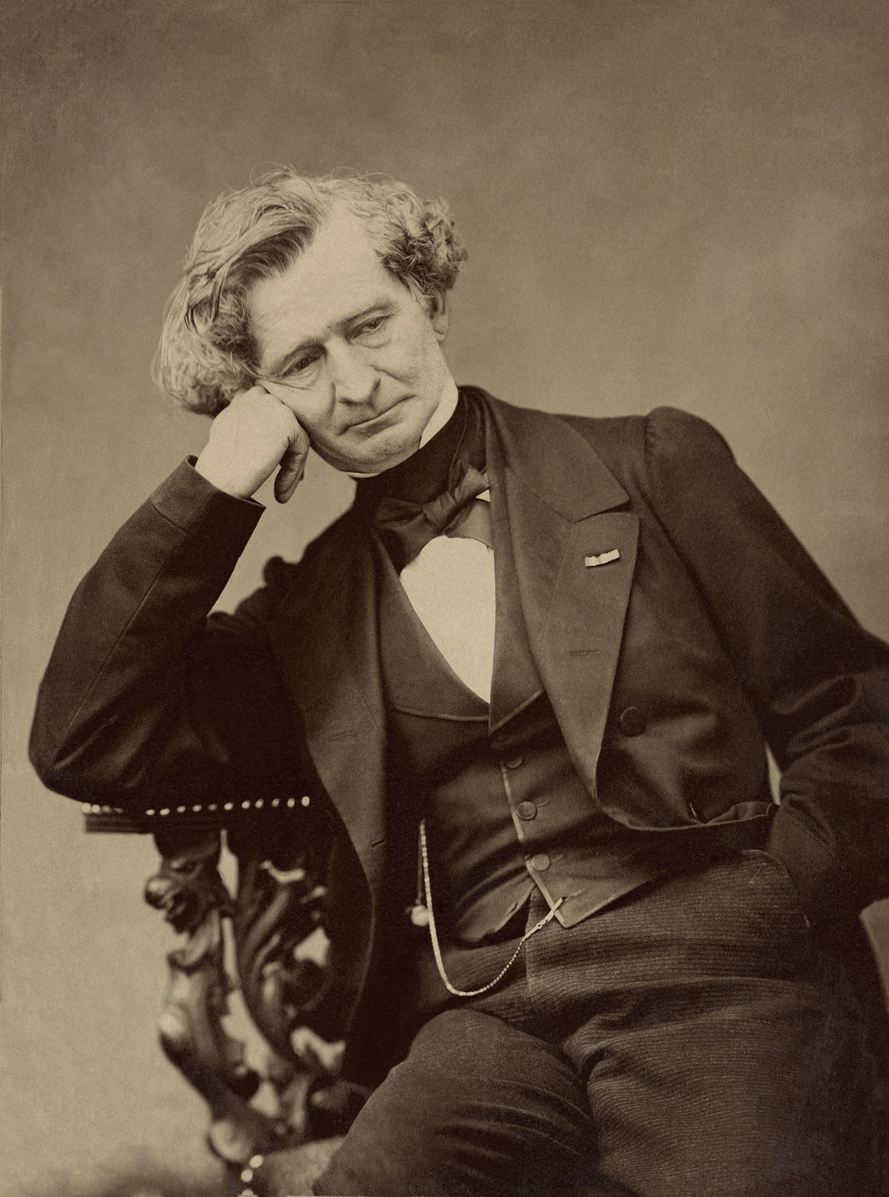 Hector Berlioz (1803-1869)